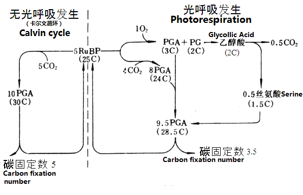 c-fix account, compare between Photosynthesis and Photorespiration